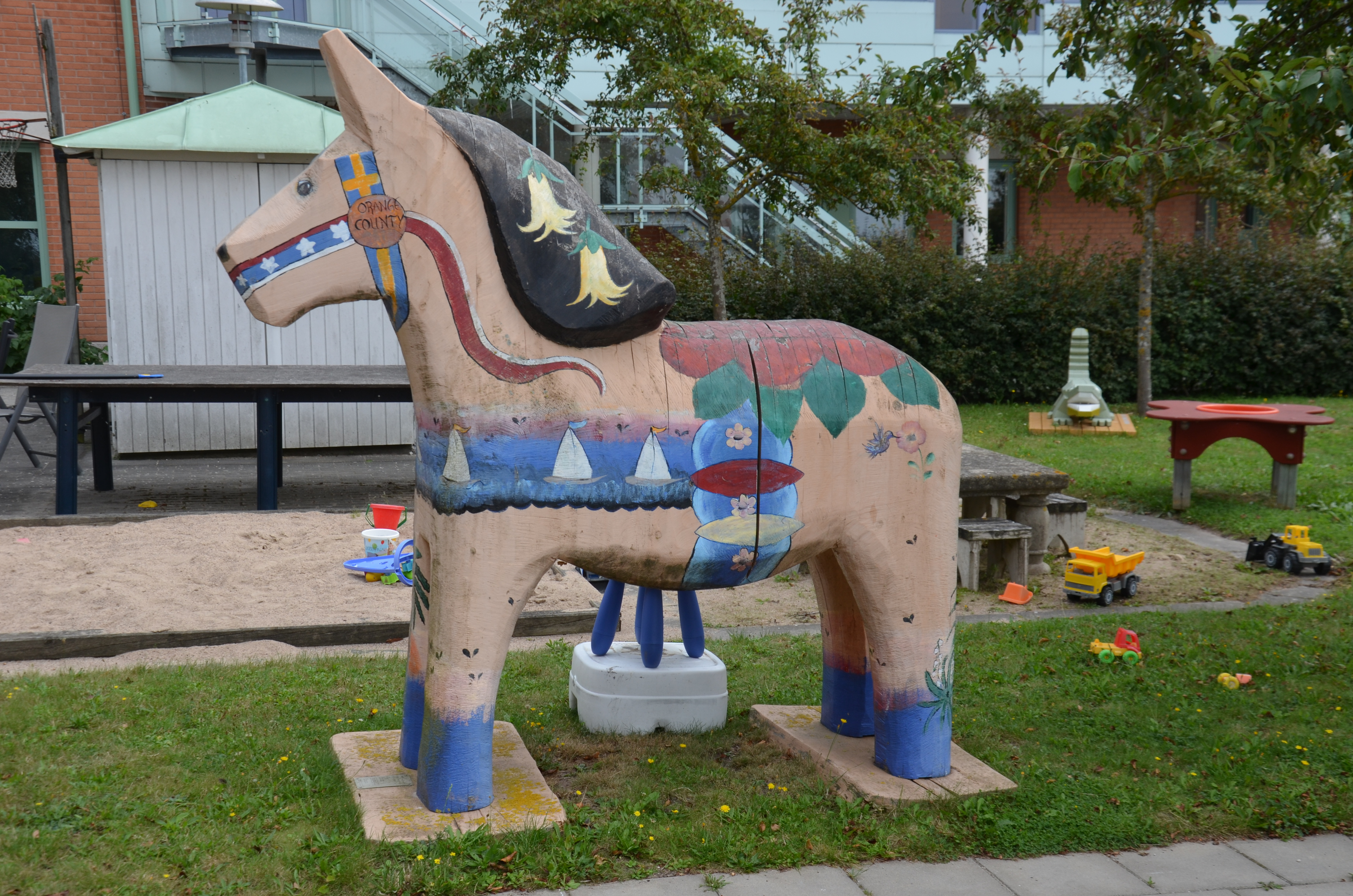 SWEA dalahäst från Orange County och SanDiego, Mai Loken, utanför Visby lasarett, trä, 2004